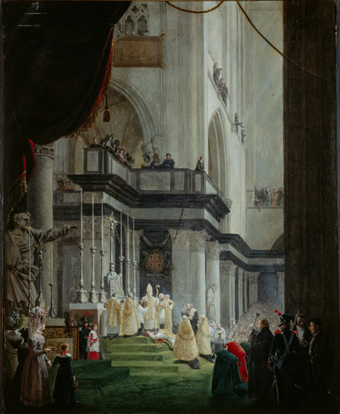 Gent Bischopshuis, Gent, Oost-Vlaanderen, Belgium. Painting. Consecration of Jan Frans Van de Velde as Bishop of Ghent. 1829.. Pieter Van Hanselaer. . © Paul M.R. Maeyaert; . Original colour transparency 4x5. . Cultural heritage; Cultural heritage|Monuments|Cathedral; Cultural heritage|Techniques|Painting; Europe|Belgium; Europe|Belgium|Oost-Vlaanderen; Europe|Belgium|Oost-Vlaanderen|Gent; Europe|Belgium|Oost-Vlaanderen|Gent|Sint-Baafskathedraal. . Bisschopswijding Mgr Vandevelde, 1829. Inventaris van het Kunstpatrimonium van Oost-Vlaanderen, V: Sint-Baafskathedraal, Gent; door Dr Elisabeth Dhaenens, 1965. . . Ref: PMa_001055_B_Gent_StB.jpg.